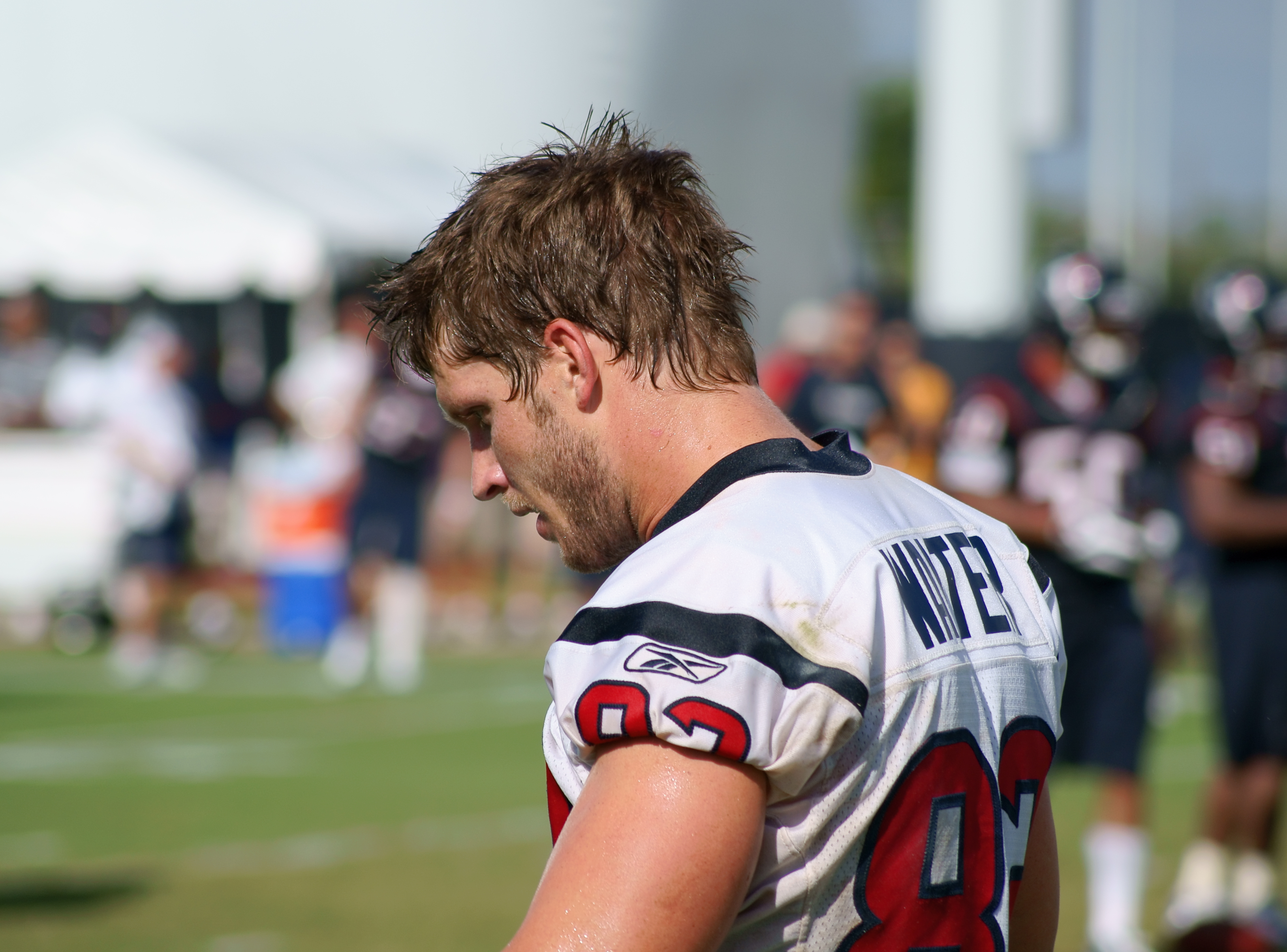 Kevin Walter of the Houston Texans